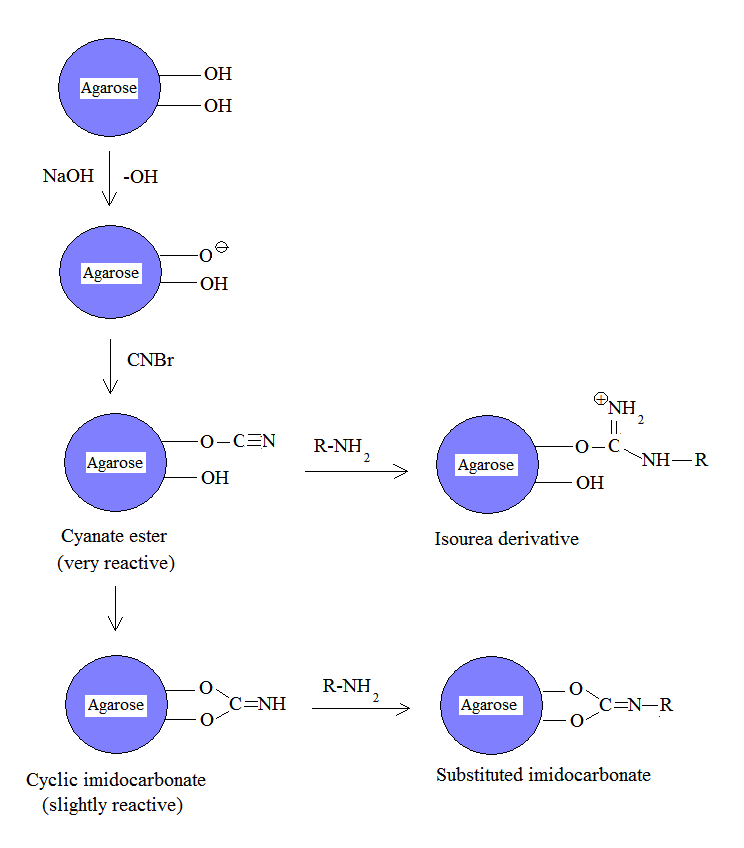 Illustration of cyanogen bromide reaction with the hydroxyl groups on agarose.